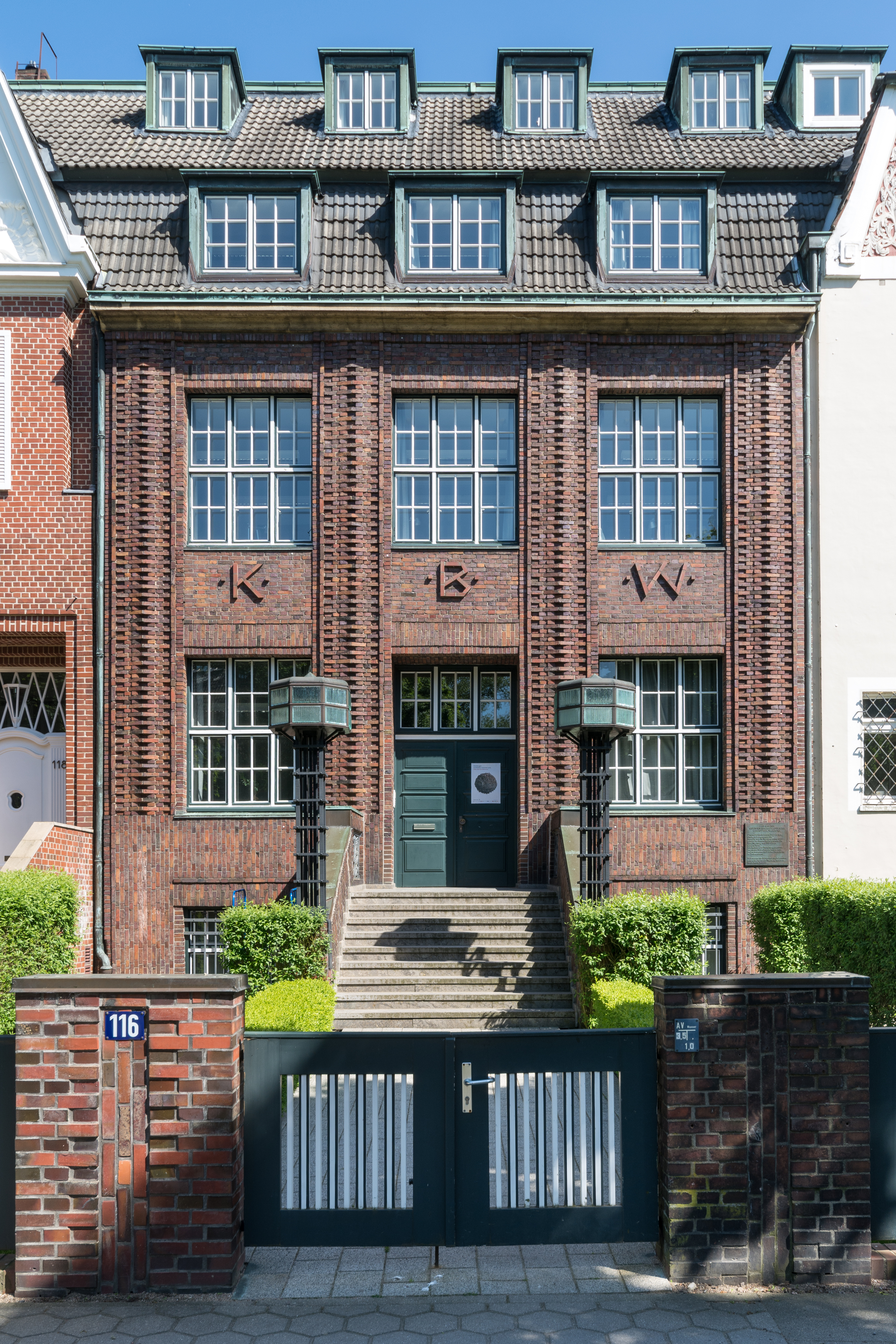 Building of Warburg library in Hamburg. This is a photograph of an architectural monument.